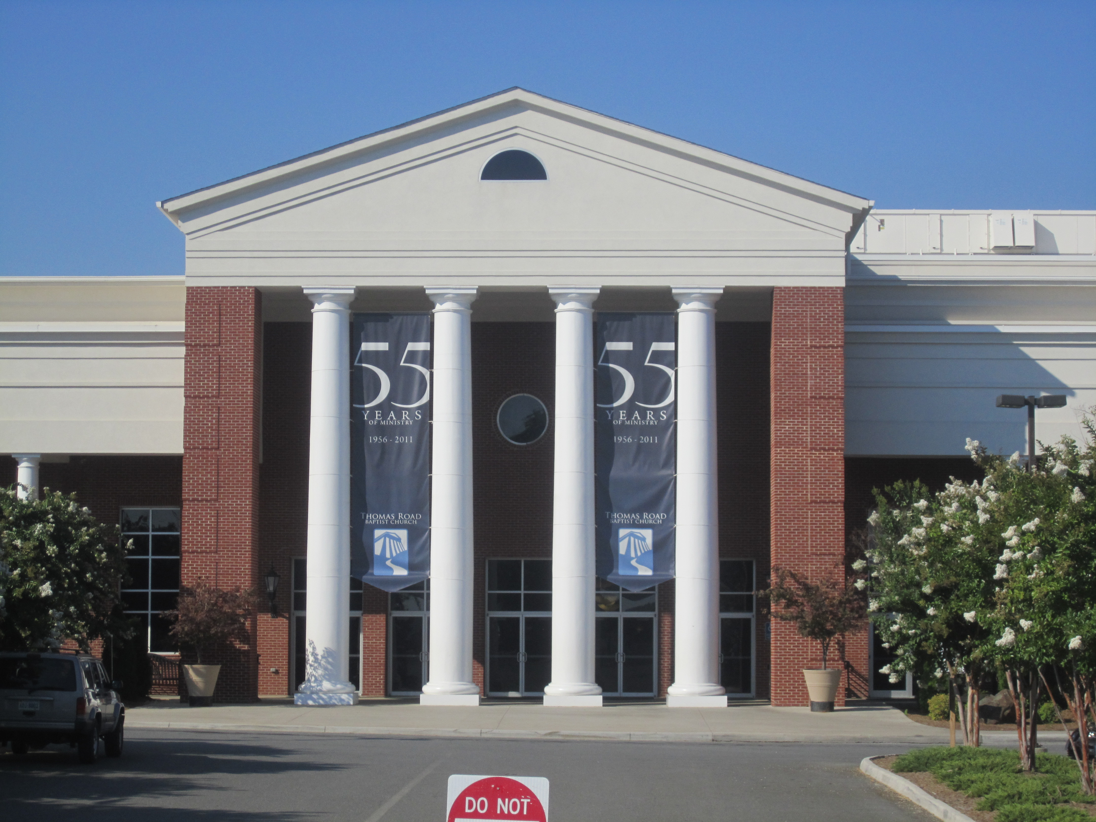 I took photo with Canon camera at Thomas Road Baptist Church in Lynchburg, VA.